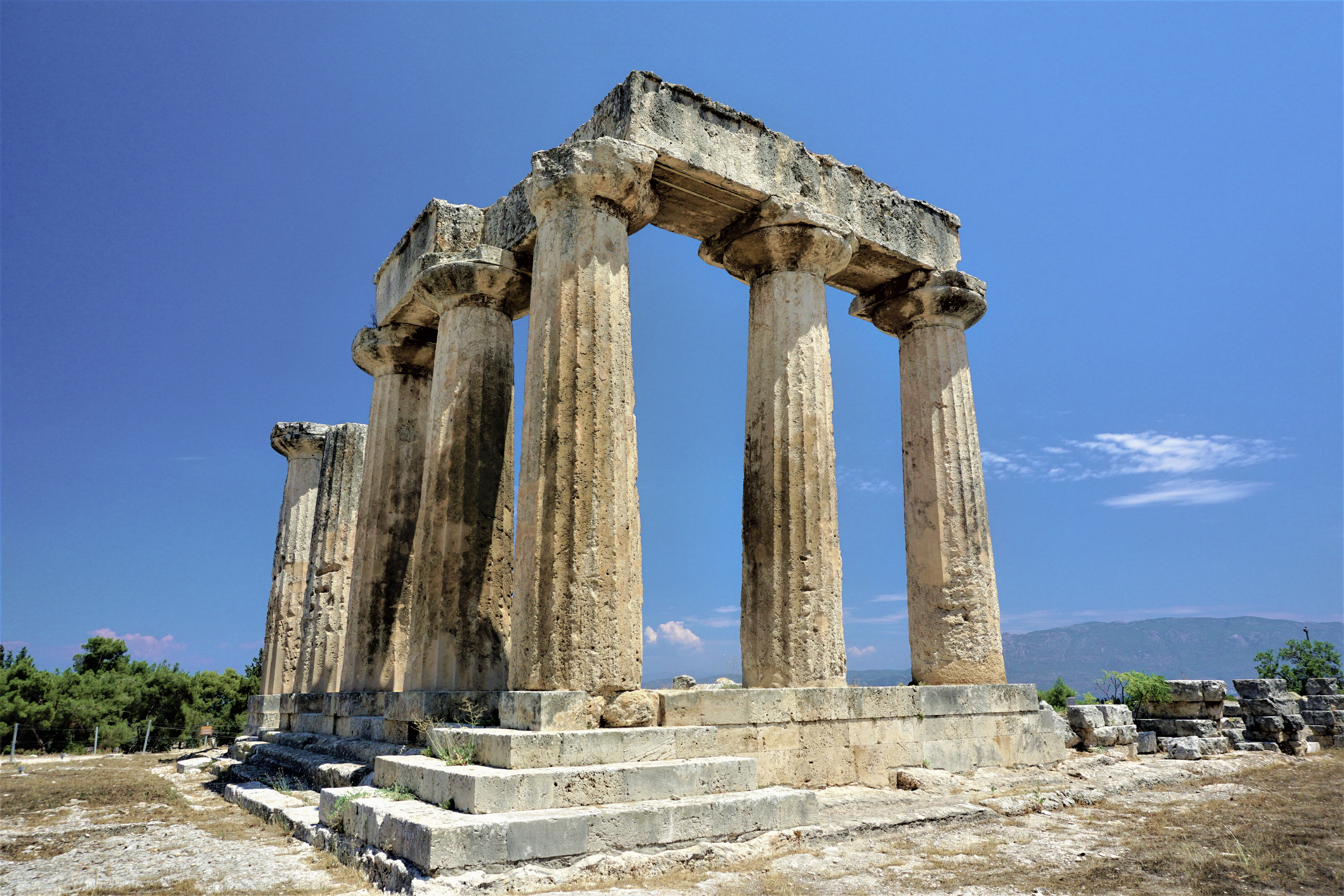 Temple of Apollo, Corinth by Joy of Museums, for information